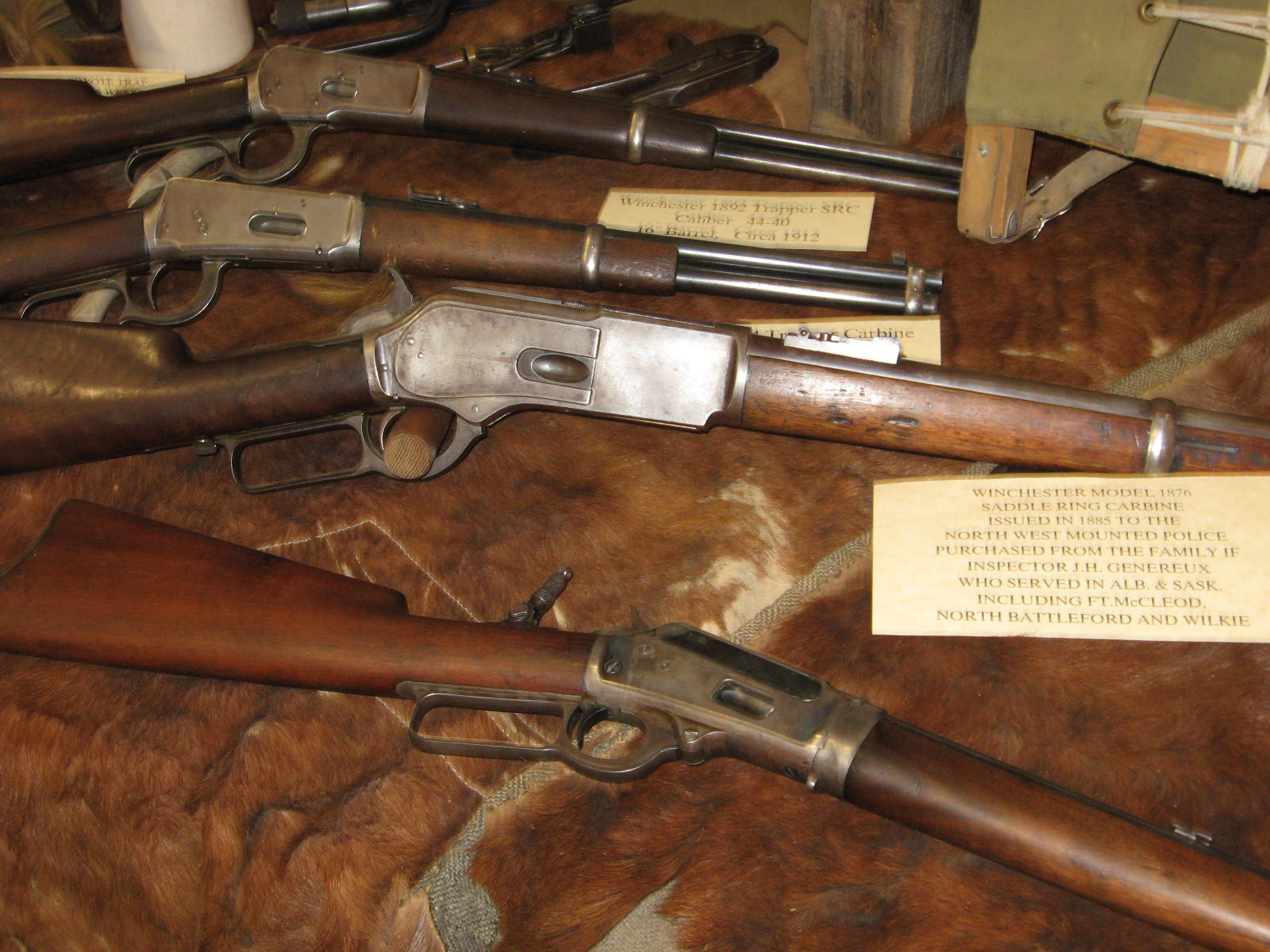 Selection of Winchester lever rifles